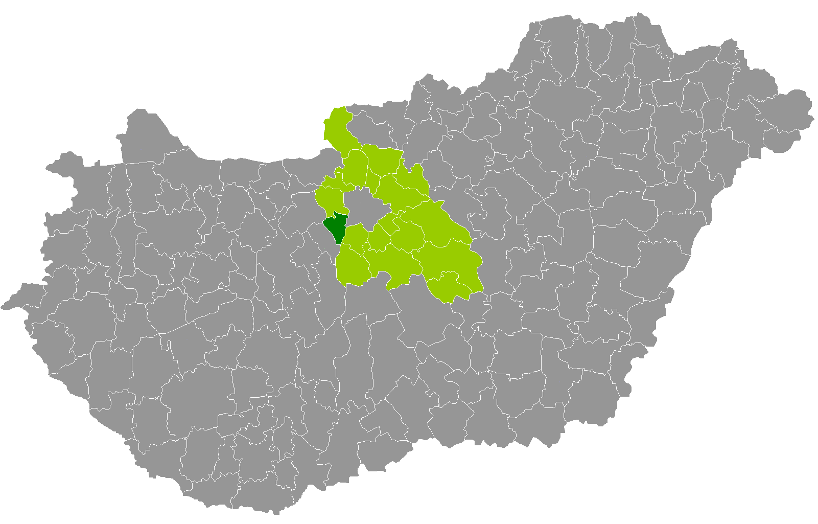 Location of Érd District, Pest, Hungary